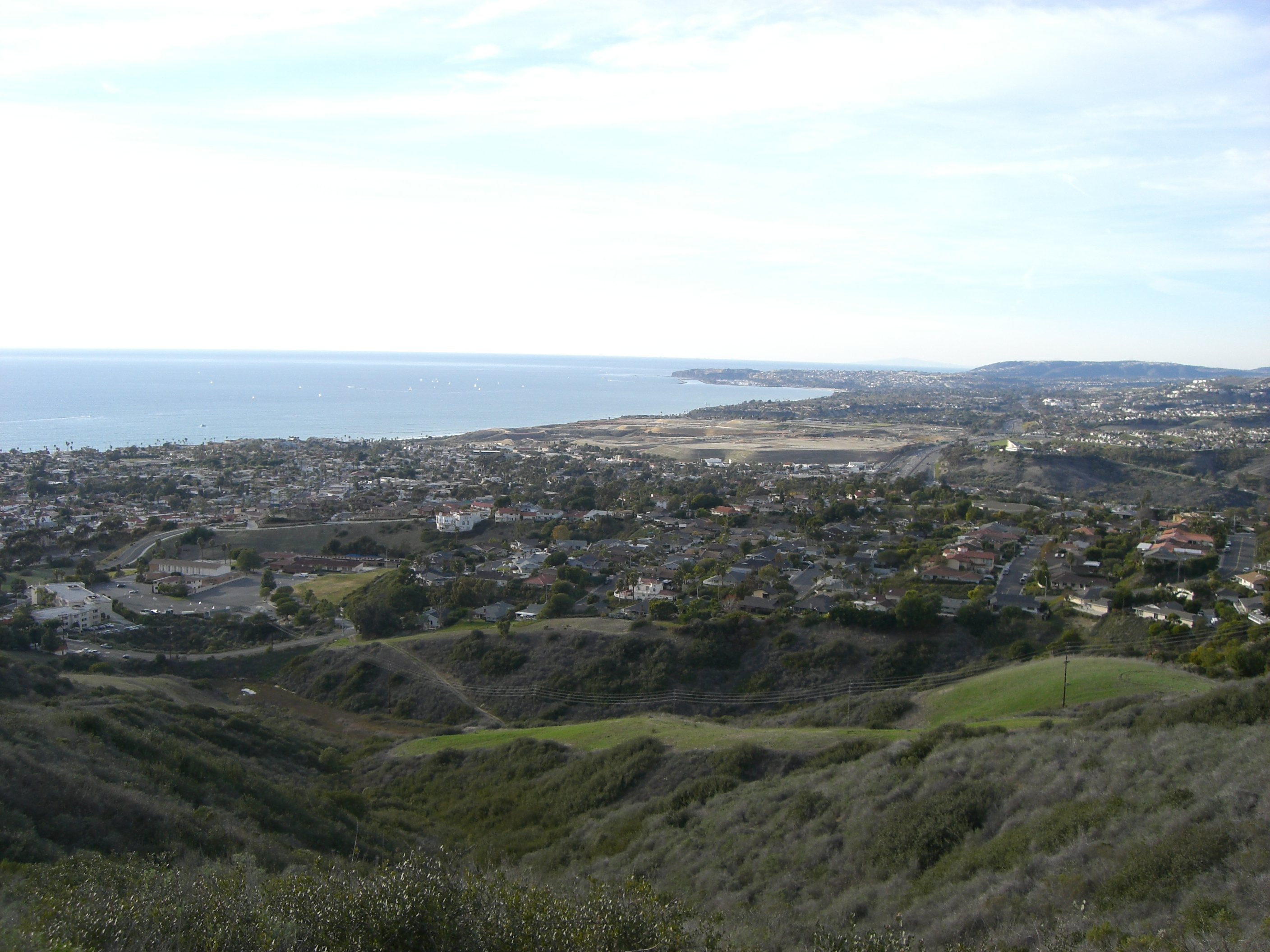 This is a photo overlooking the Pacific Ocean in San Clemente, California, USA.